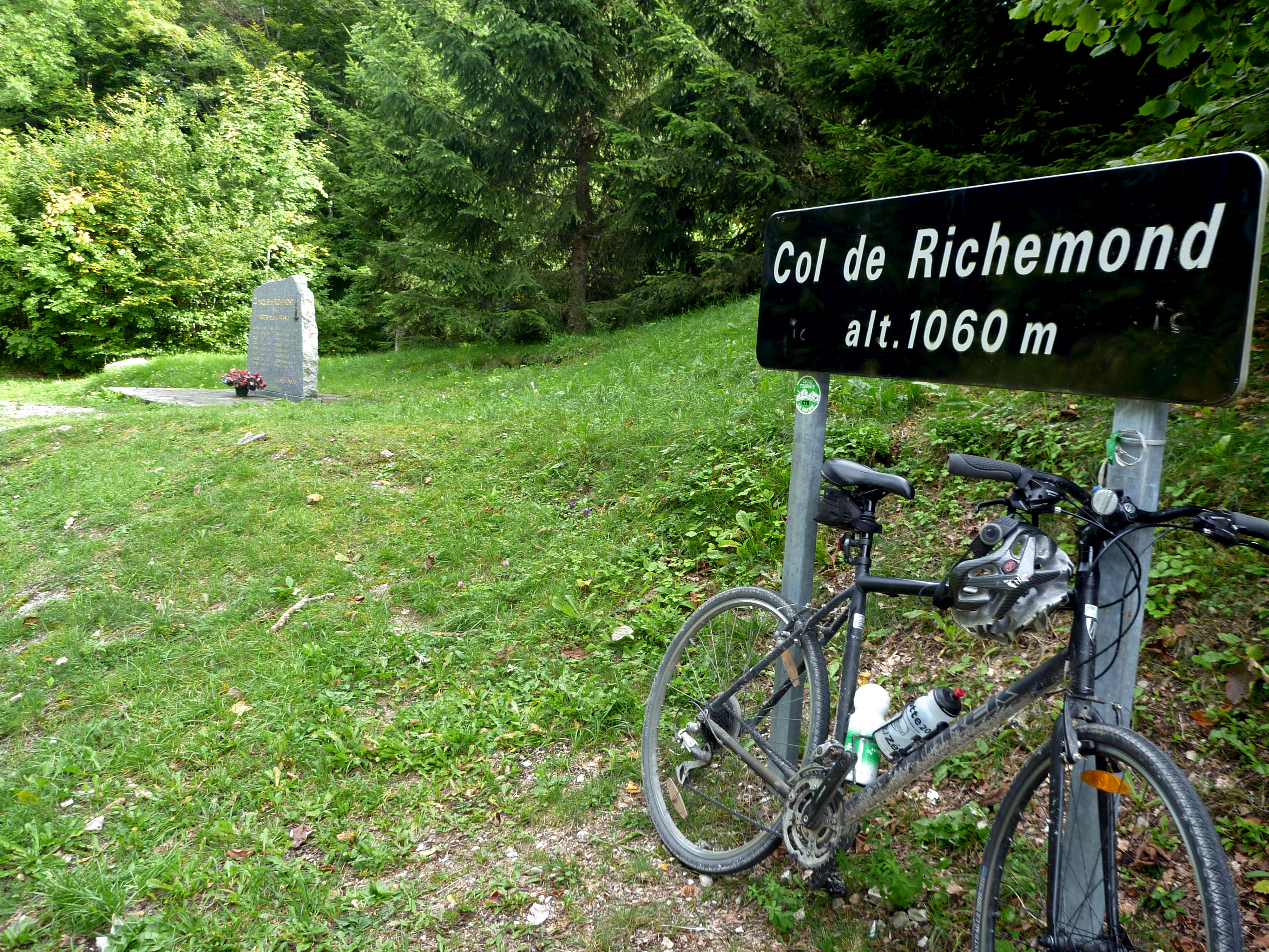 Col de Richemond, Chanay